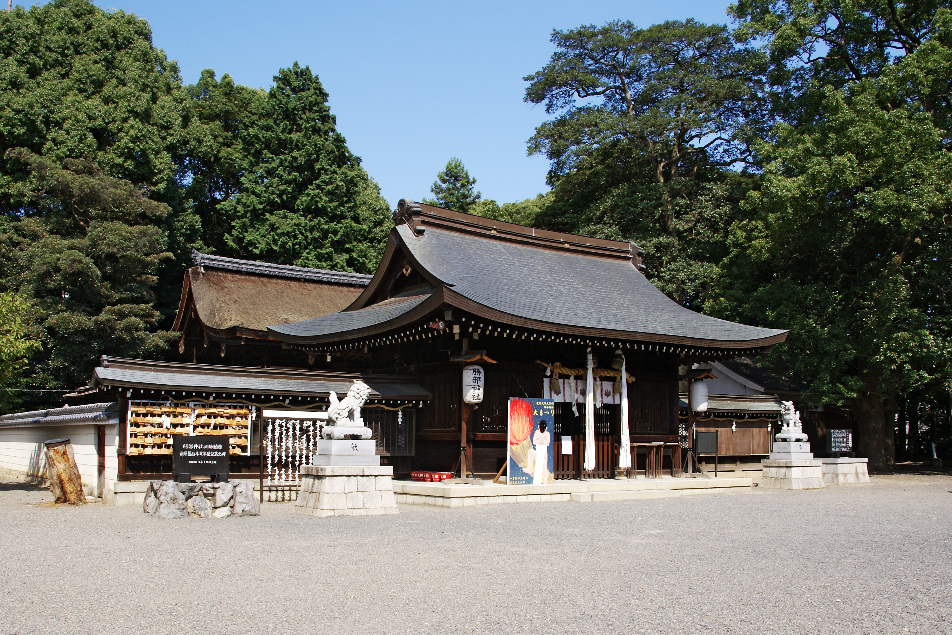 Katsube-jinja in Moriyama, Shiga prefecture, Japan